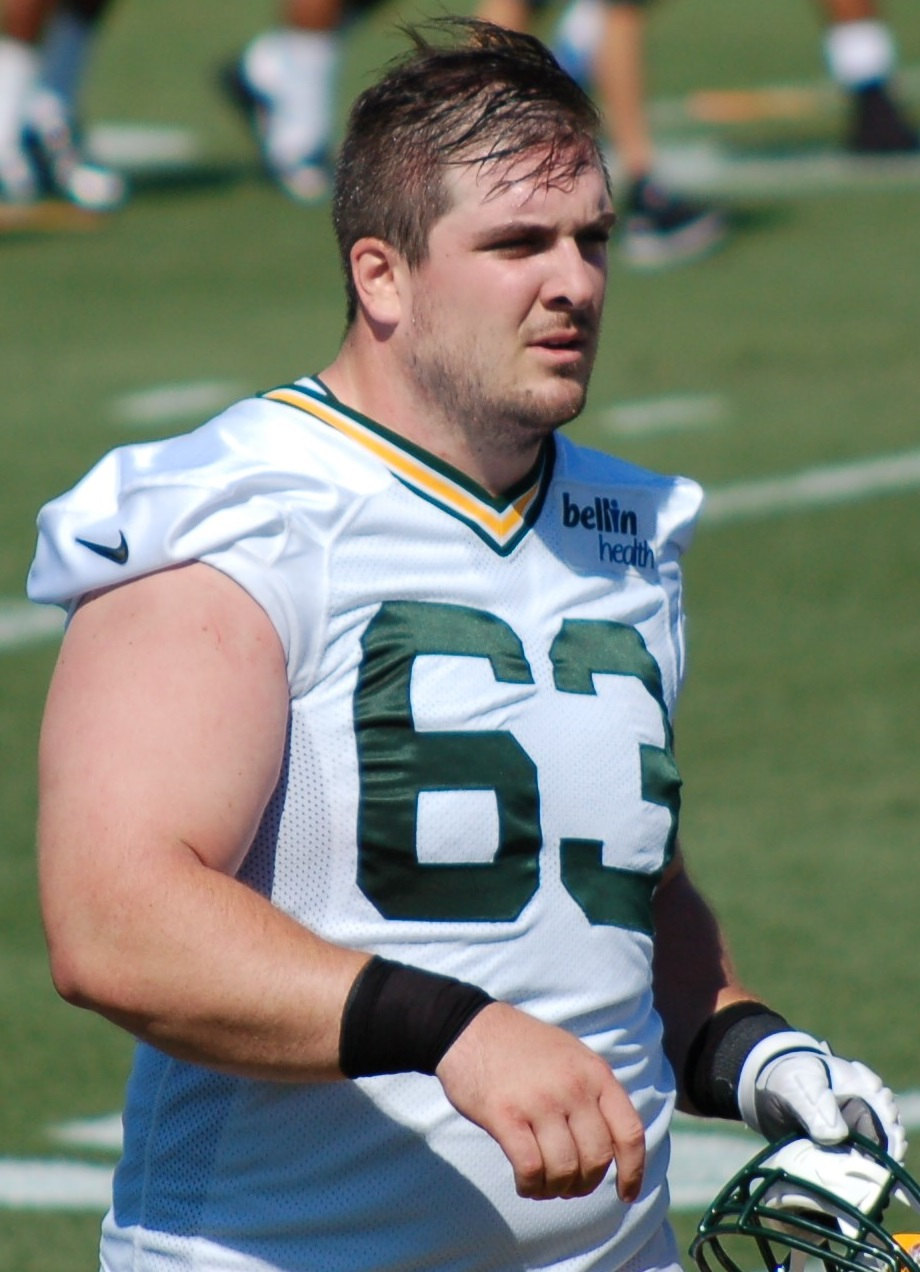 2015 Packers training camp